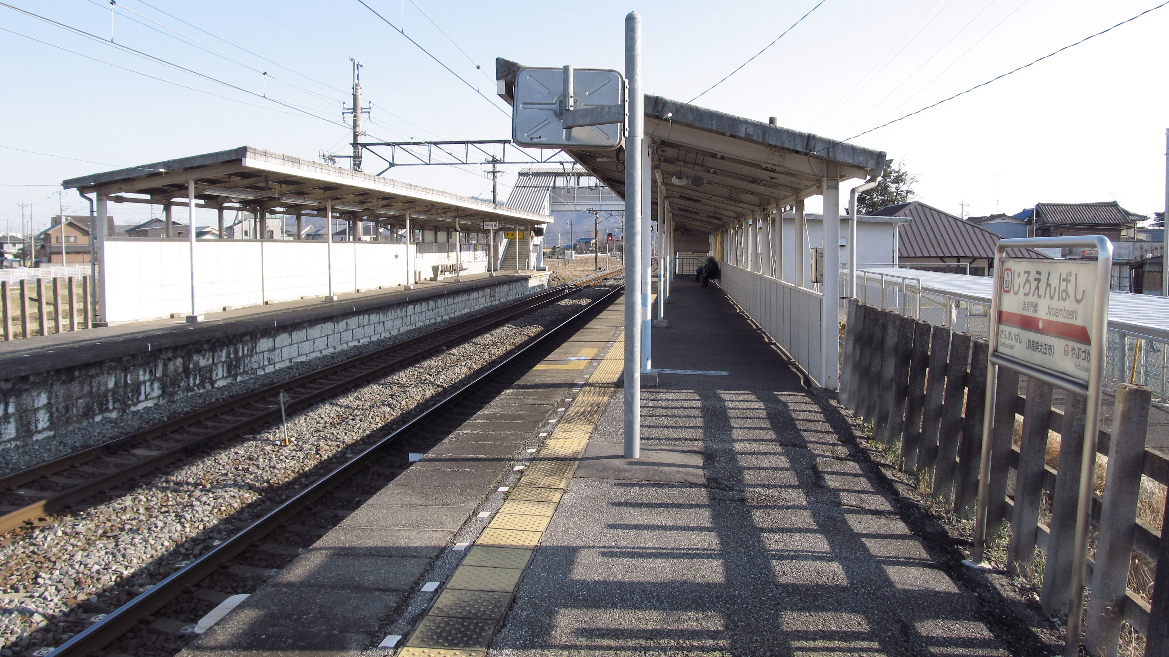 The platforms at Jiroembashi Station on the Tobu Railway Kiryū Line in Ōta city, Gumma prefecture, Japan